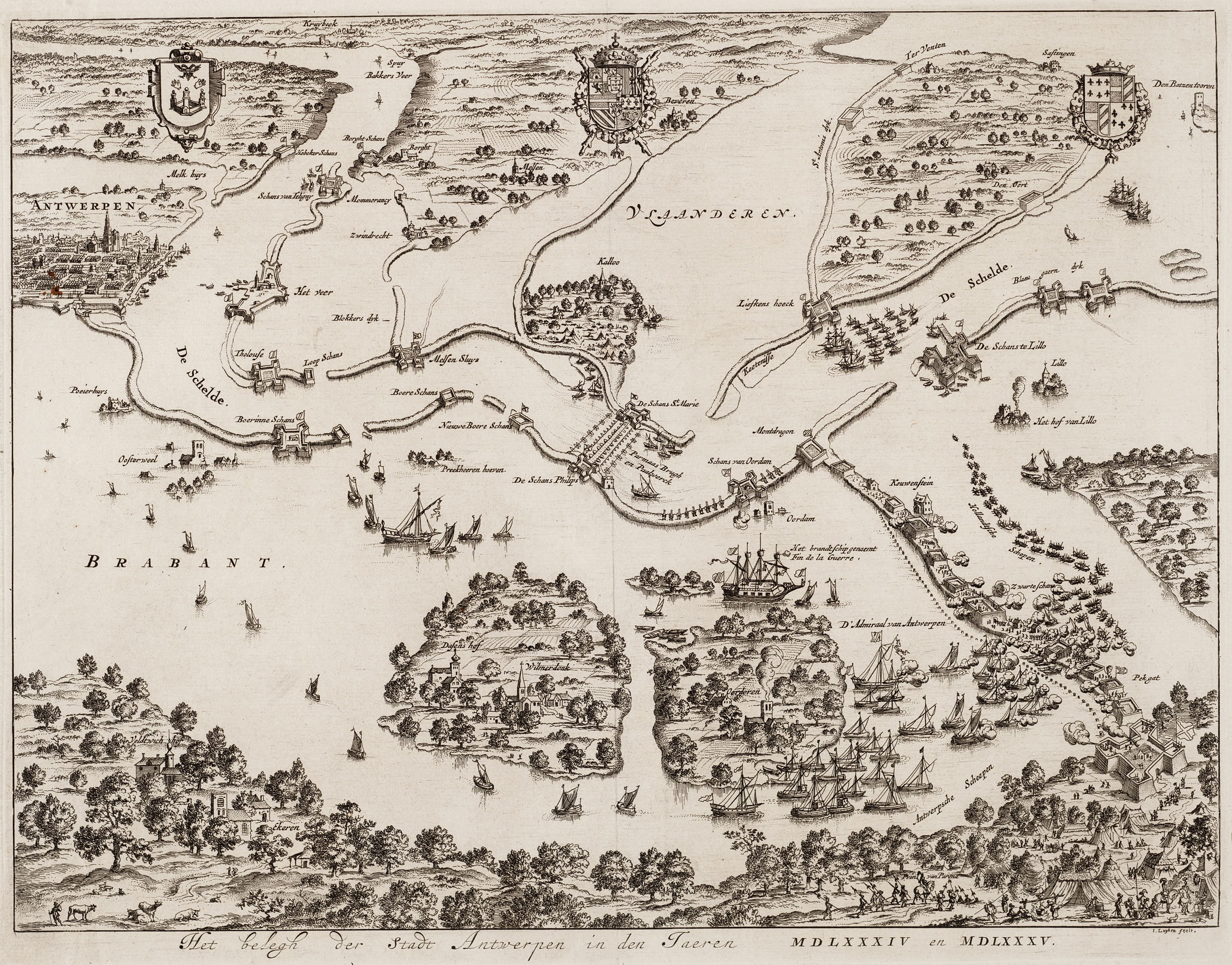 The siege of Antwerp in 1584 - 1585